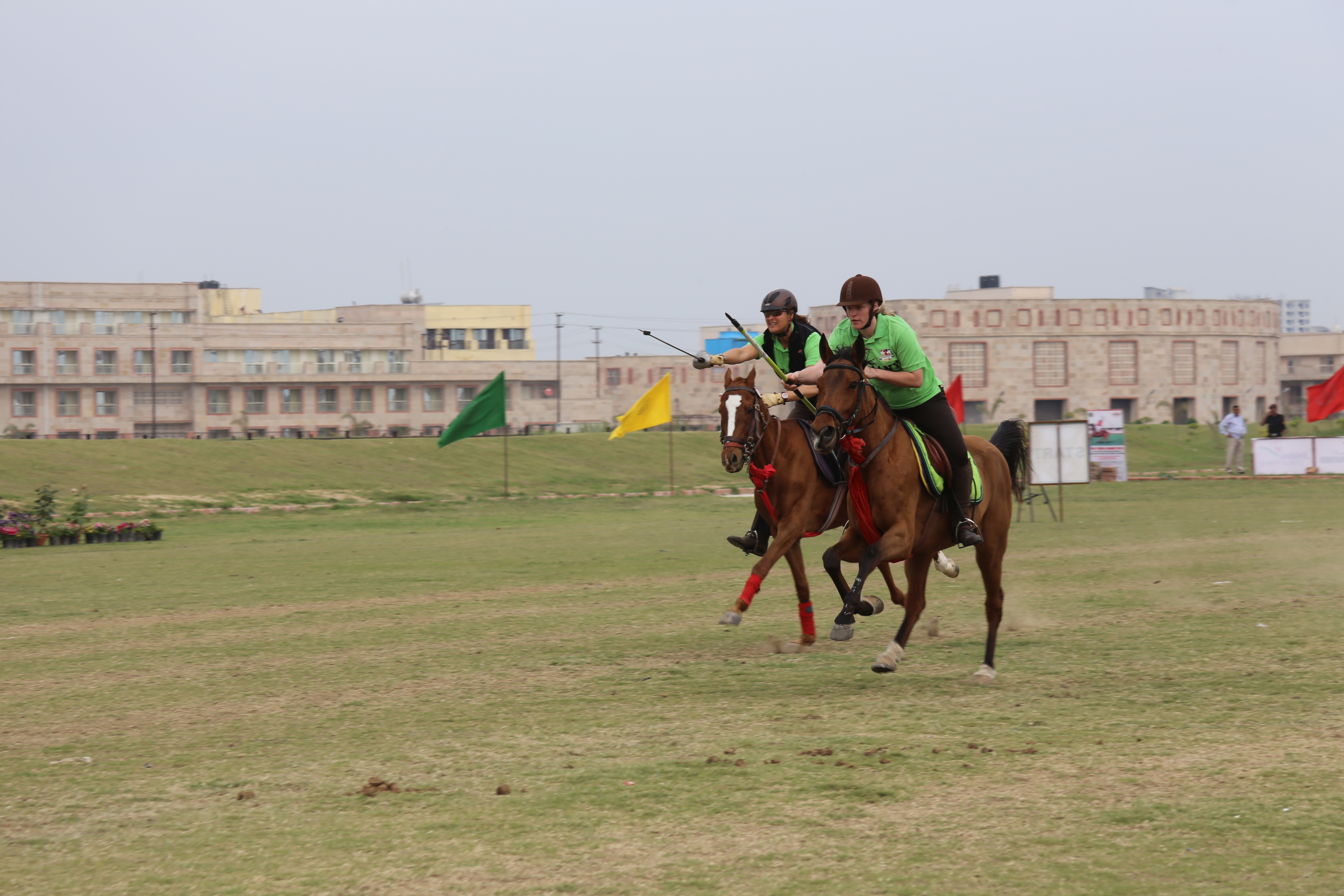 "Lance and Sword Paired" tentpegging competition at a tournament in India